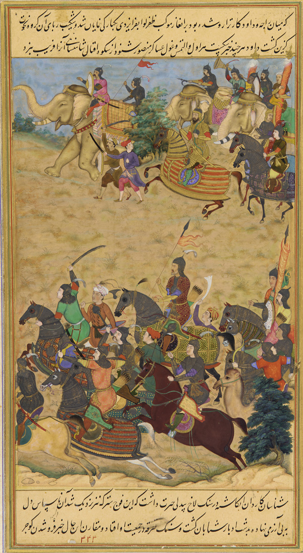 Mughal Troops Chase the Armies of Da'ud 1526-1856 Mughal dynasty Color and gold on paper H: 43.2 W: 27.9 cm India Purchase F1954.30